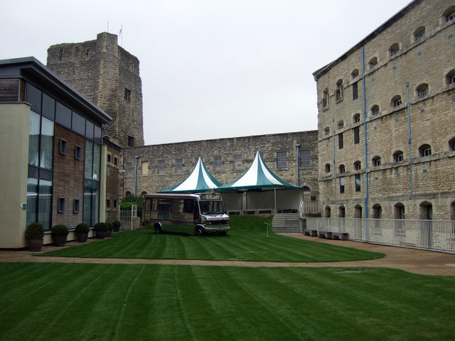 The Oxford prison complex A massive make-over, thanks to a £3.8 million grant from the National Lottery Heritage fund, has seen this once grim site transformed into a 'visitor attraction' with a luxury hotel in the former prison and tours of the old castle along with shops, restaurants and gallery space. The mirrored bus is a temporary art work. Parts of the prison lie on either side of the 'grid line'.